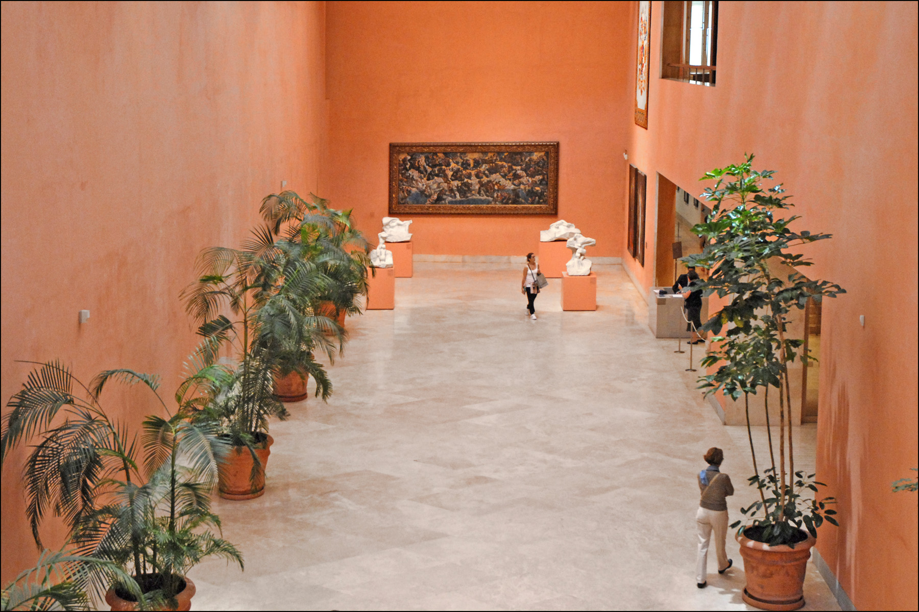 Lobby of the Thyssen-Bornemisza Museum in Madrid (Spain).